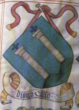 Coat of Arms of Diogo Cão Livro do Armeiro-Mor